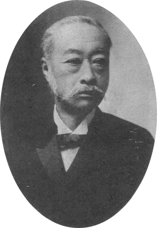 Late Baron Uzuhiko Shimazu.